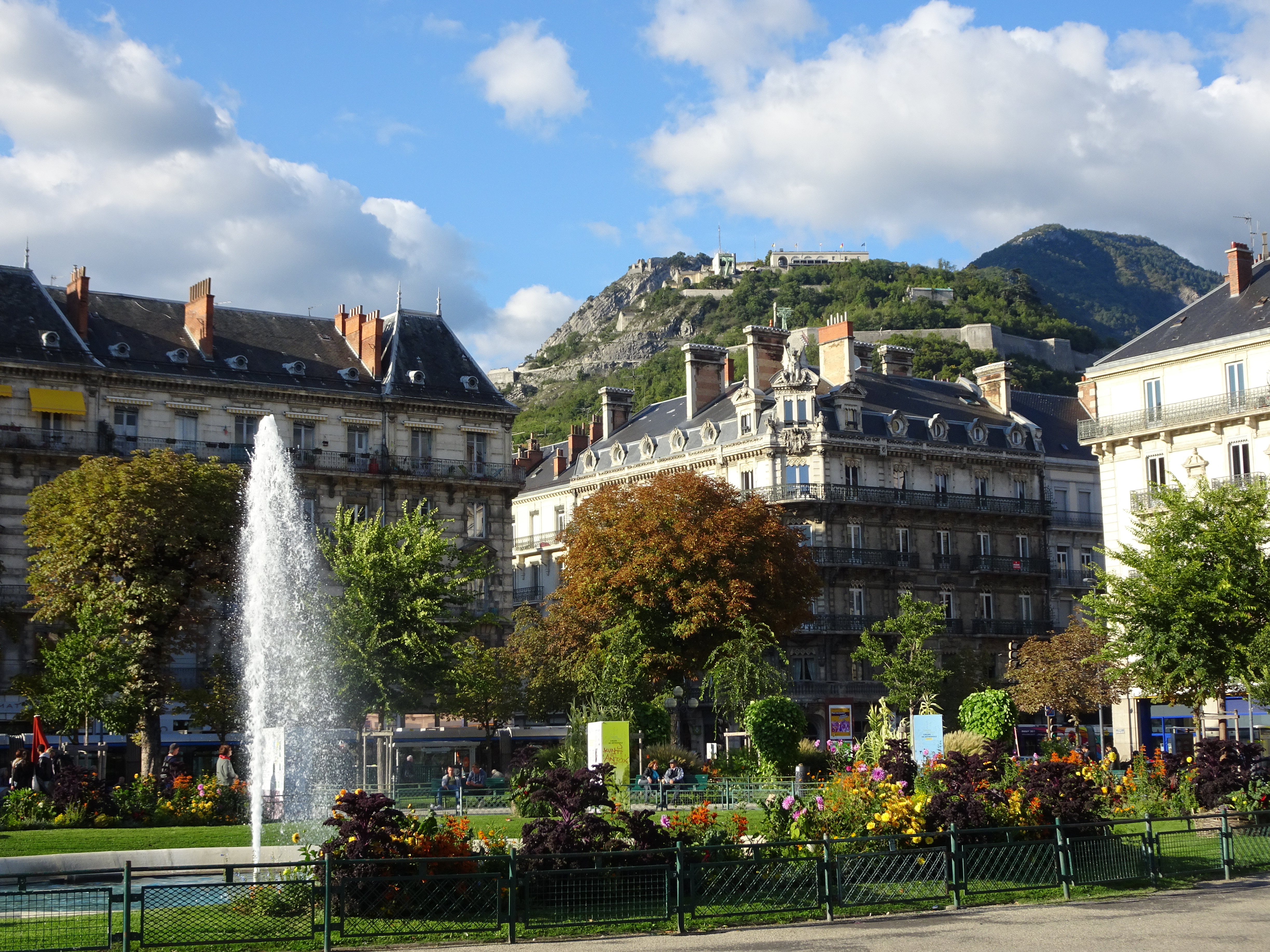 Victor Hugo public square in Grenoble downtown. A fountain lies at the center of the square. We can also see La Bastille on the higher ground on the mountains near the city.